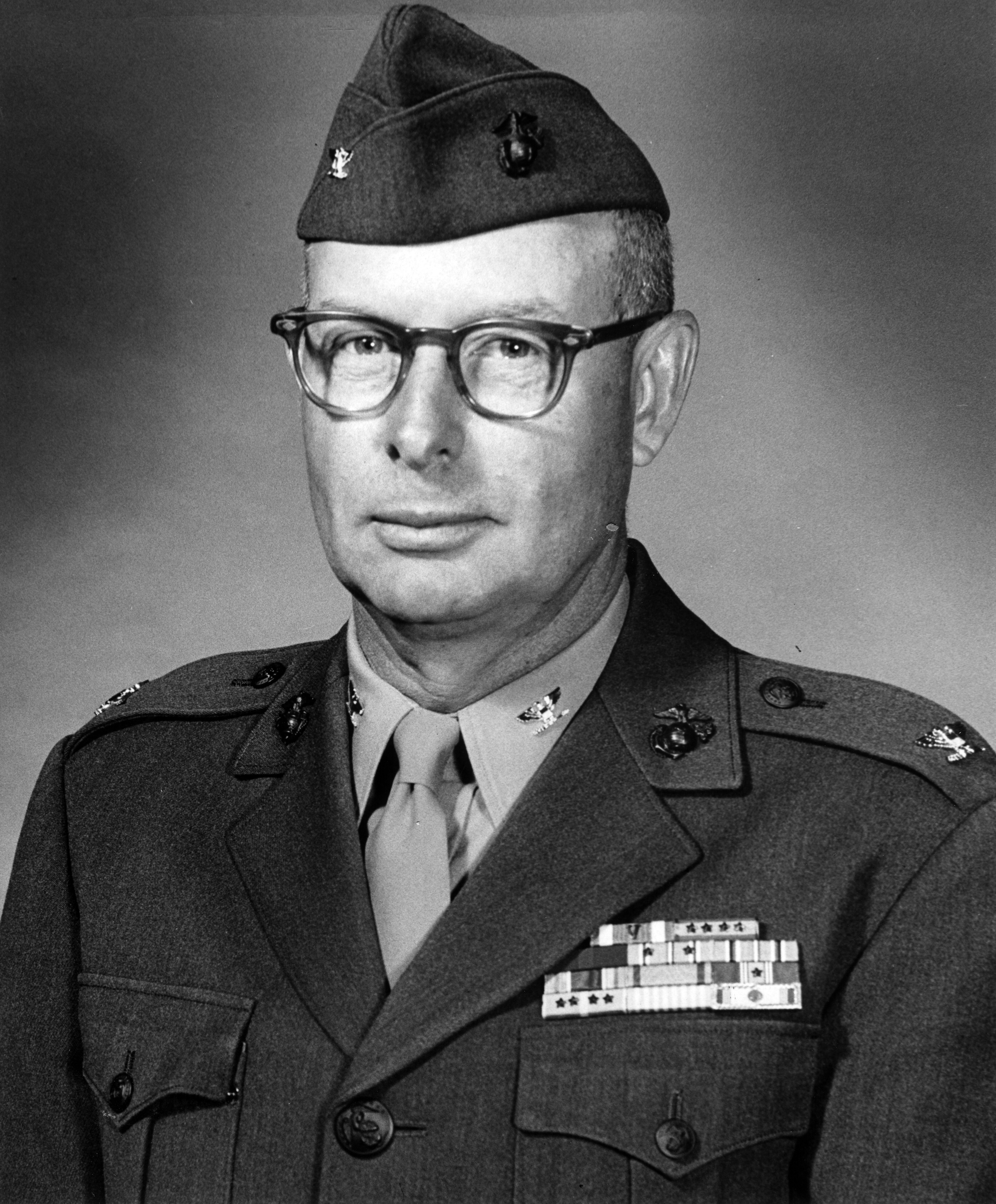 Herbert Lloyd Wilkerson (born October 31, 1919) is a decorated officer in the United States Marine Corps with the rank of Major General. A veteran of three wars, he is most noted for his service as Commanding officer, 1st Marine Regiment during Vietnam War and later as Commanding general, 3rd Marine Division.